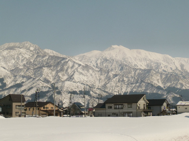 Mount Ushi (Ushi-ga-take) in winter as seen from Shiozawa, Minamiuonuma